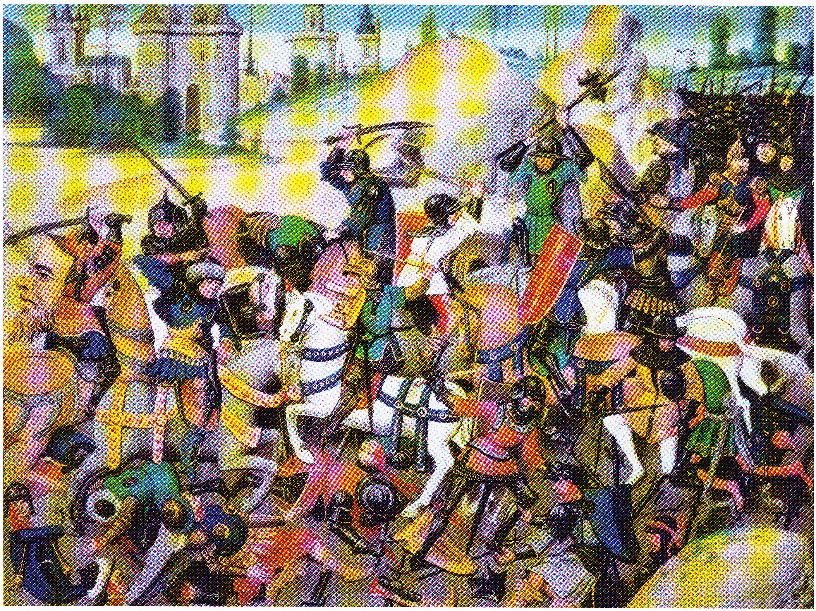 Crusades fighting in a battle in front of Antioch while the Siege of Antioch in 1097 and 1098.